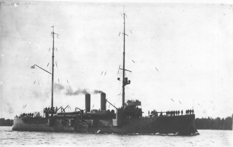 Канонерская лодка «Хивинец» после модернизации